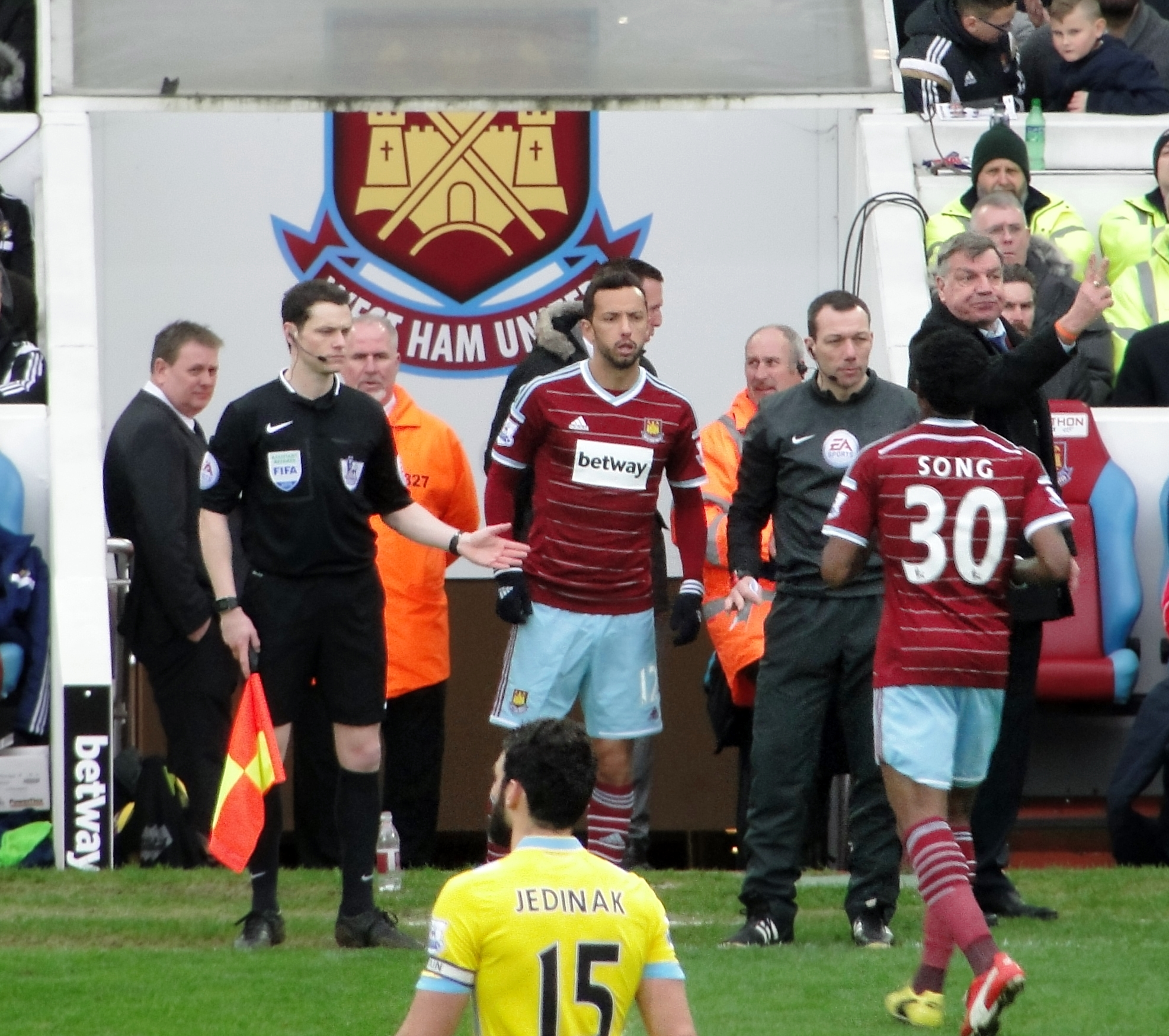 West Ham United footballer, Nenê making his debut against Crystal Palace at the Boleyn Ground, February 2015